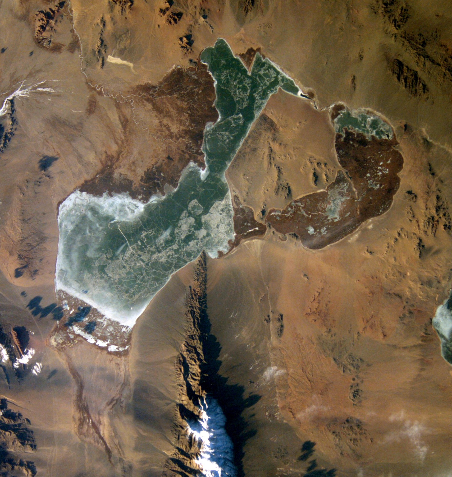 Khar-Us-Nuur lake, Mongolia, Jargalant-Khairkhan Mounts under snow cup